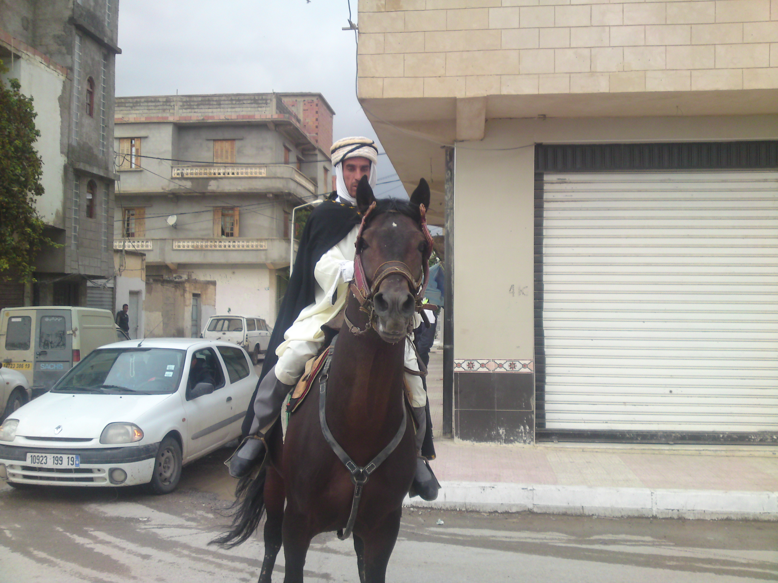 algerian weddings This is an image of Cultural Fashion or Adornment from Algeria